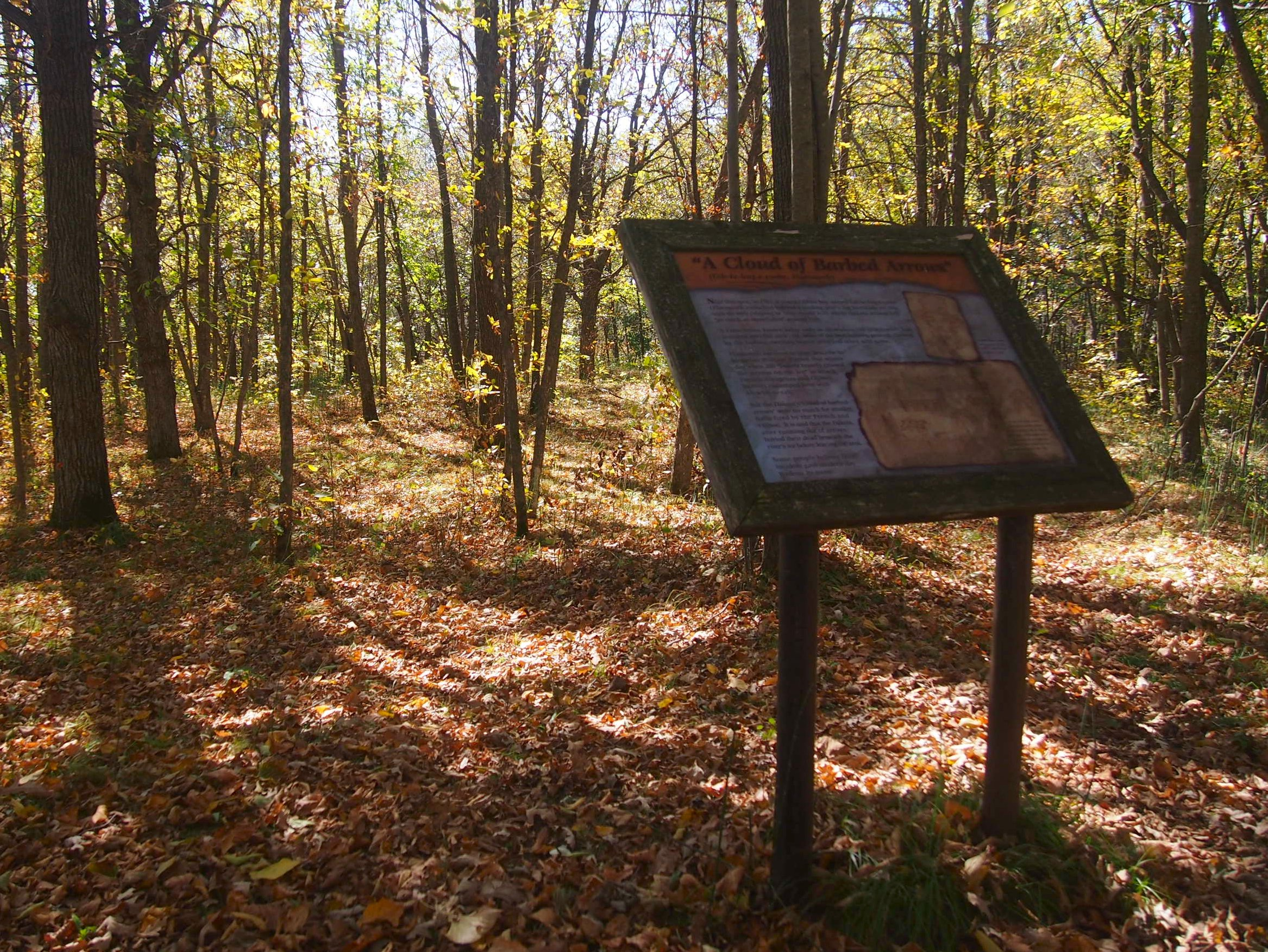 Interpretive marker describing the 1783 Battle of Partridge River between the Dakota and a French/Ojibwe fur trading camp, Old Wadena County Park, Thomastown Township, Minnesota, USA. Viewed from the northeast.